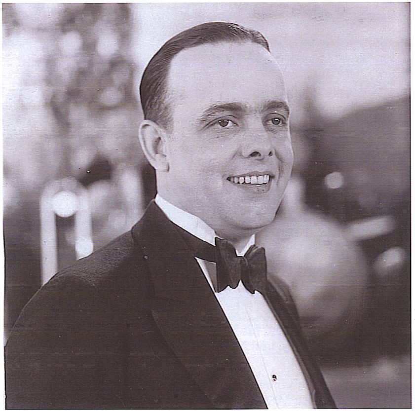 American bandleader Tal Henry and his North Carolinians Orchestra